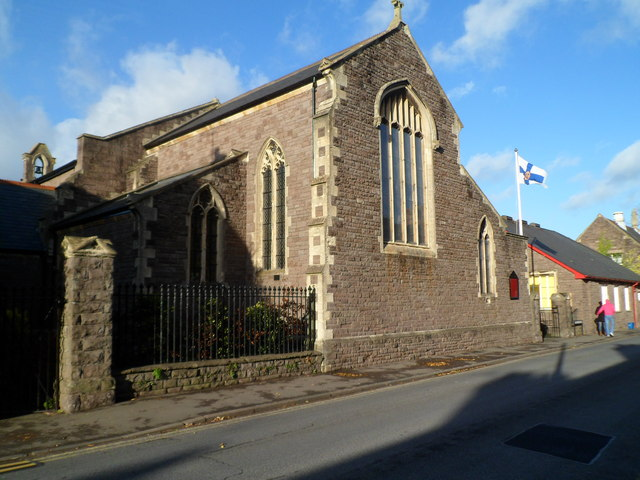 Grade II listed Church of the Holy Trinity, Abergavenny. This is the Baker Street side of the Church in Wales church, in the Diocese of Monmouth. Holy Trinity Church was consecrated by the Bishop of Llandaff on November 6th 1840. It was originally built as a chapel to serve the adjacent almshouses and the nearby school. Grade II listed in January 1974.